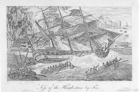 Engraving from a book of engravings